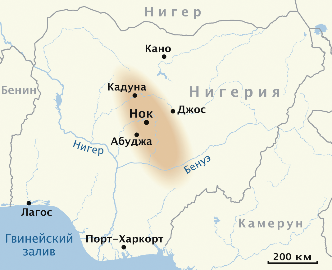 Area of the Nok culture, Russian version